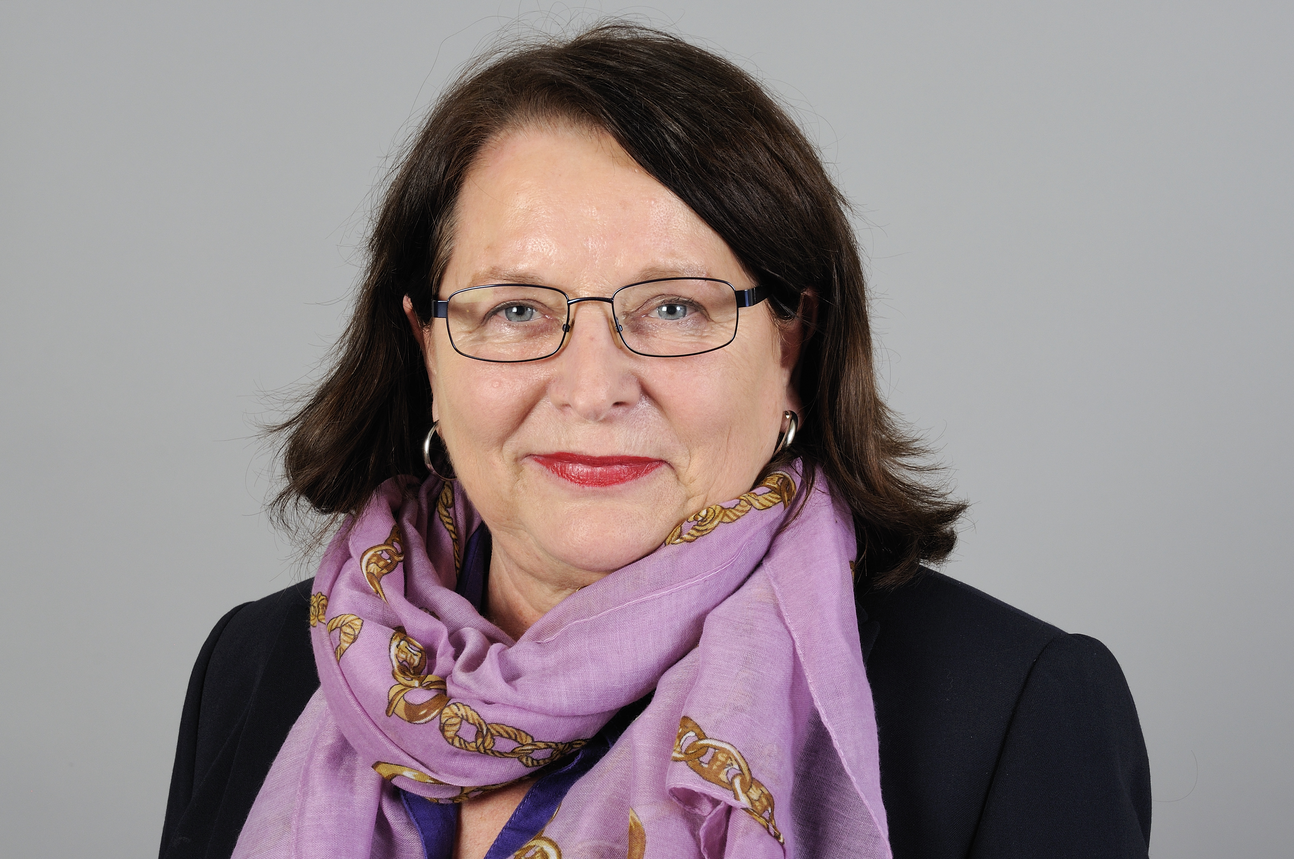 Brigitte Lange, Berlin politician (SPD) and member of the Abgeordnetenhaus of Berlin (as of 2013).